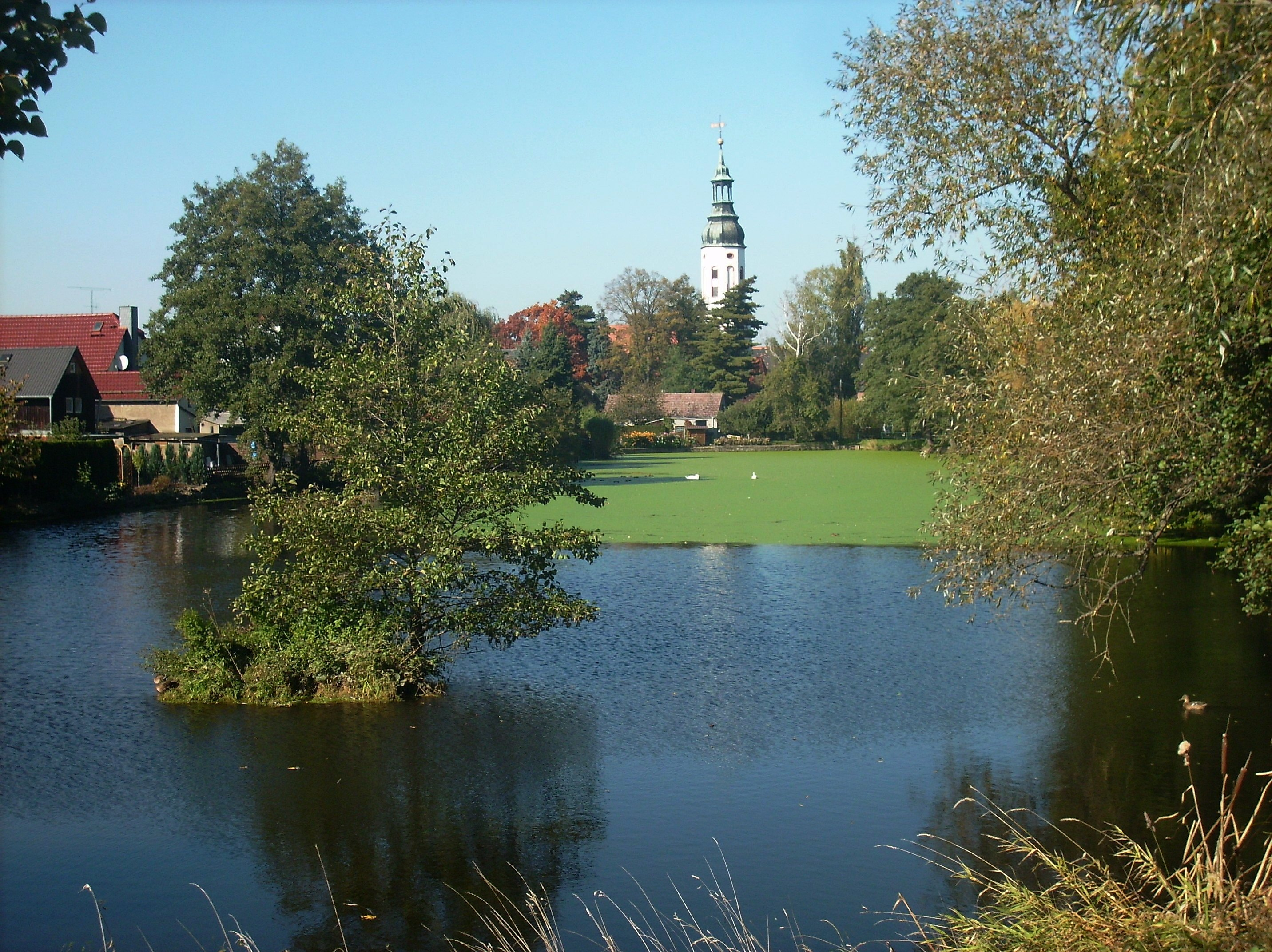 Pond in Otterwisch (Leipzig district, Saxony)